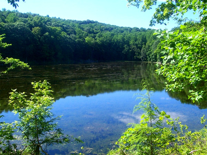 Photographed 2005-07-02 by Daniel Case